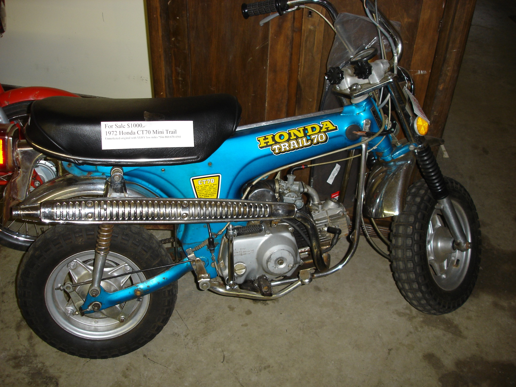 I had a Honda trail 70 like this when I was growing up.